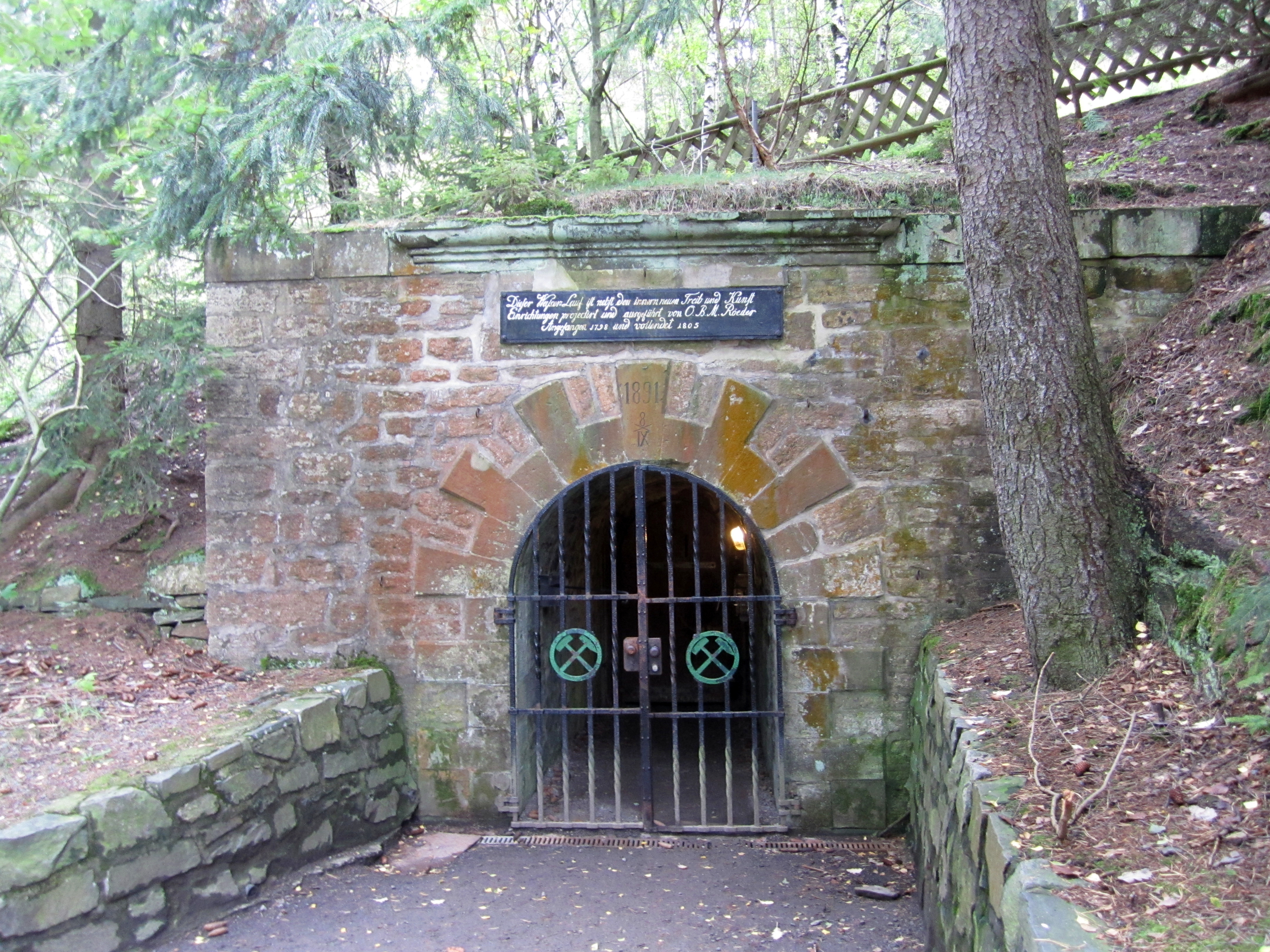 Adith mouth of Roederstollen. Rammelsberg mine, Goslar, Lower Saxony, Germany.